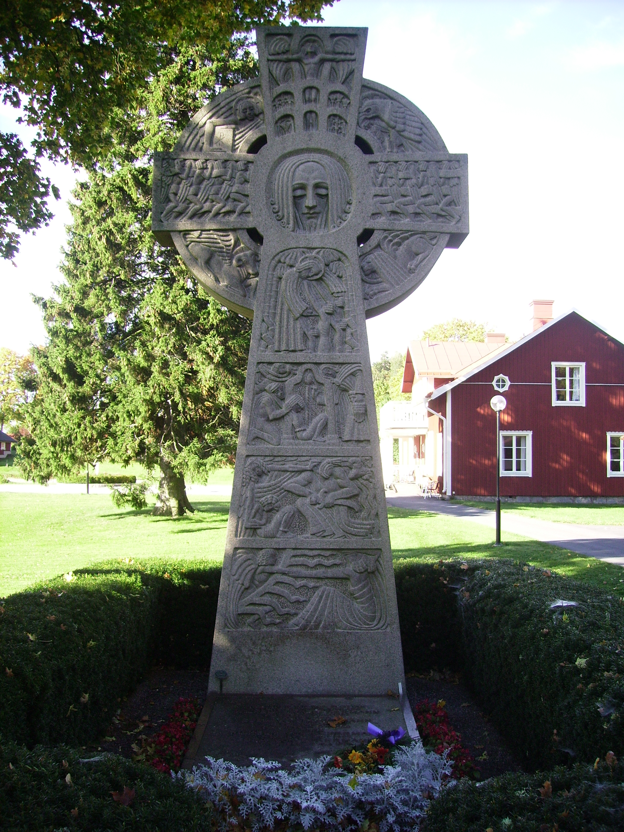 Picture of Ebba von Eckermann's grave at Frustuna kyrkogård in Gnesta